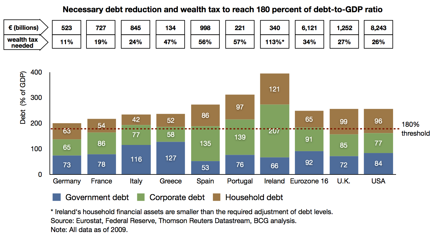 Write-offs necessary in selected Eurozone countries, UK and USA to achieve sustainable debt levels. The graph shows the current debt levels of the household, corporate and public sector and the necessary debt reduction and possible (one-time) wealth tax to reduce the overall (combined) debt-to-GDP ratio to 180 percent. Source: Boston Consulting Group: (23 September 2011)